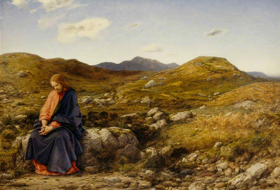 Painting about Jesus: "Man of Sorrows" by William Dyce. Oil on board.